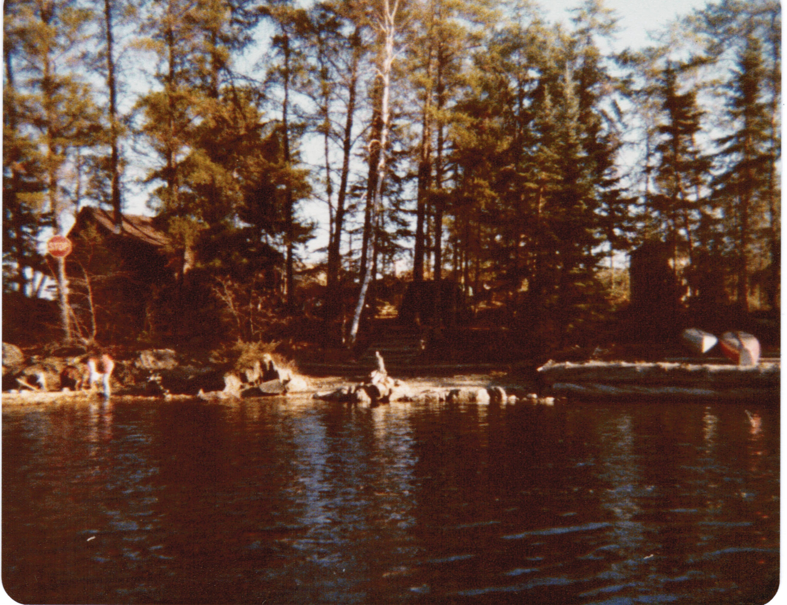 Dorothy Molter' summer tent/cabin and pier in the Boundary Waters Canoe Area Wilderness